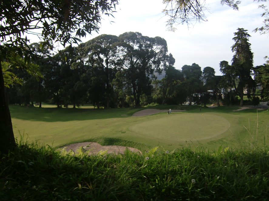 El Junko Parish, La Guaira State (formerly called Vargas) in Venezuela